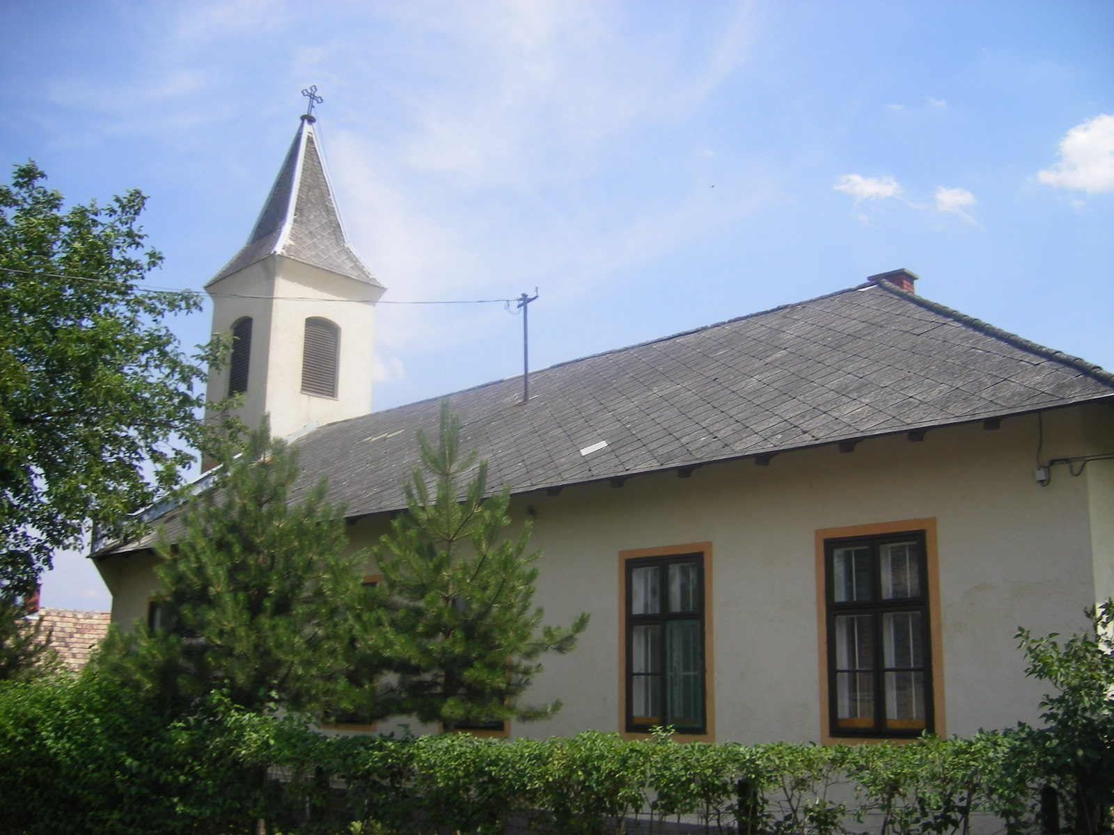 Bakonybánk (Komárom-Esztergom county) - Lutheran church